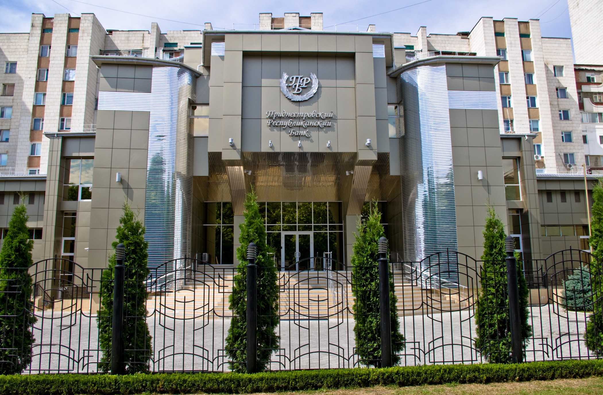 Head office of the Transnitria Central Bank (Central Bank of Transnitria), located on 25th October street, Tiraspol.